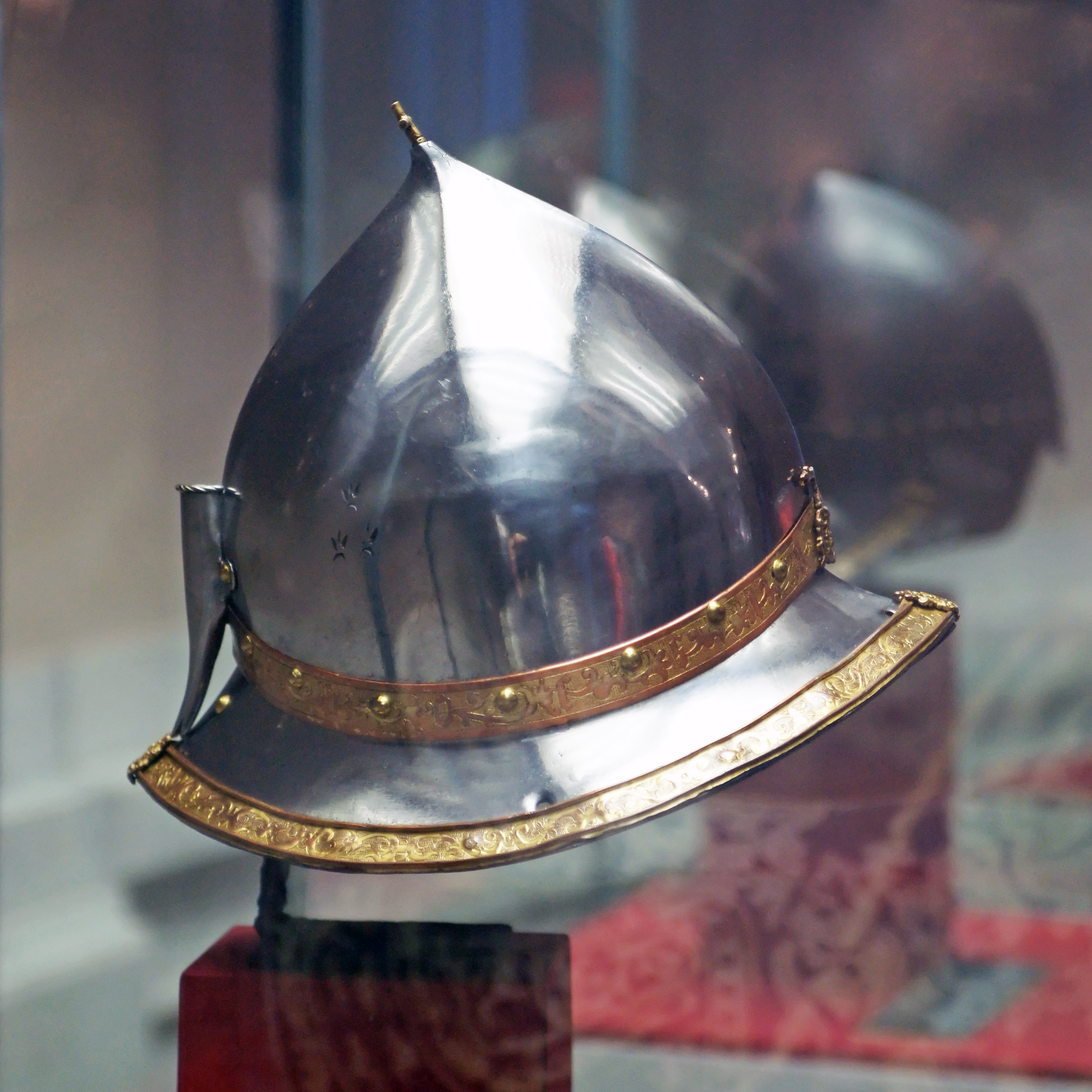 Capacete (infantry helmet) of Ferdinand II of Aragon, c. 1490